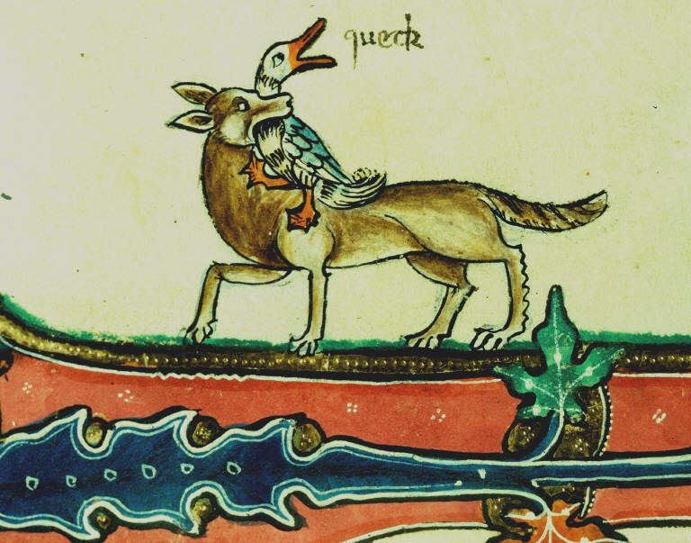 Gorleston Psalter (British Library Add Ms. 49622. "The fox carries a goose away in its mouth, and the goose says ‘queck’ (quack). The scene is probably from the tale of Reynard the fox."